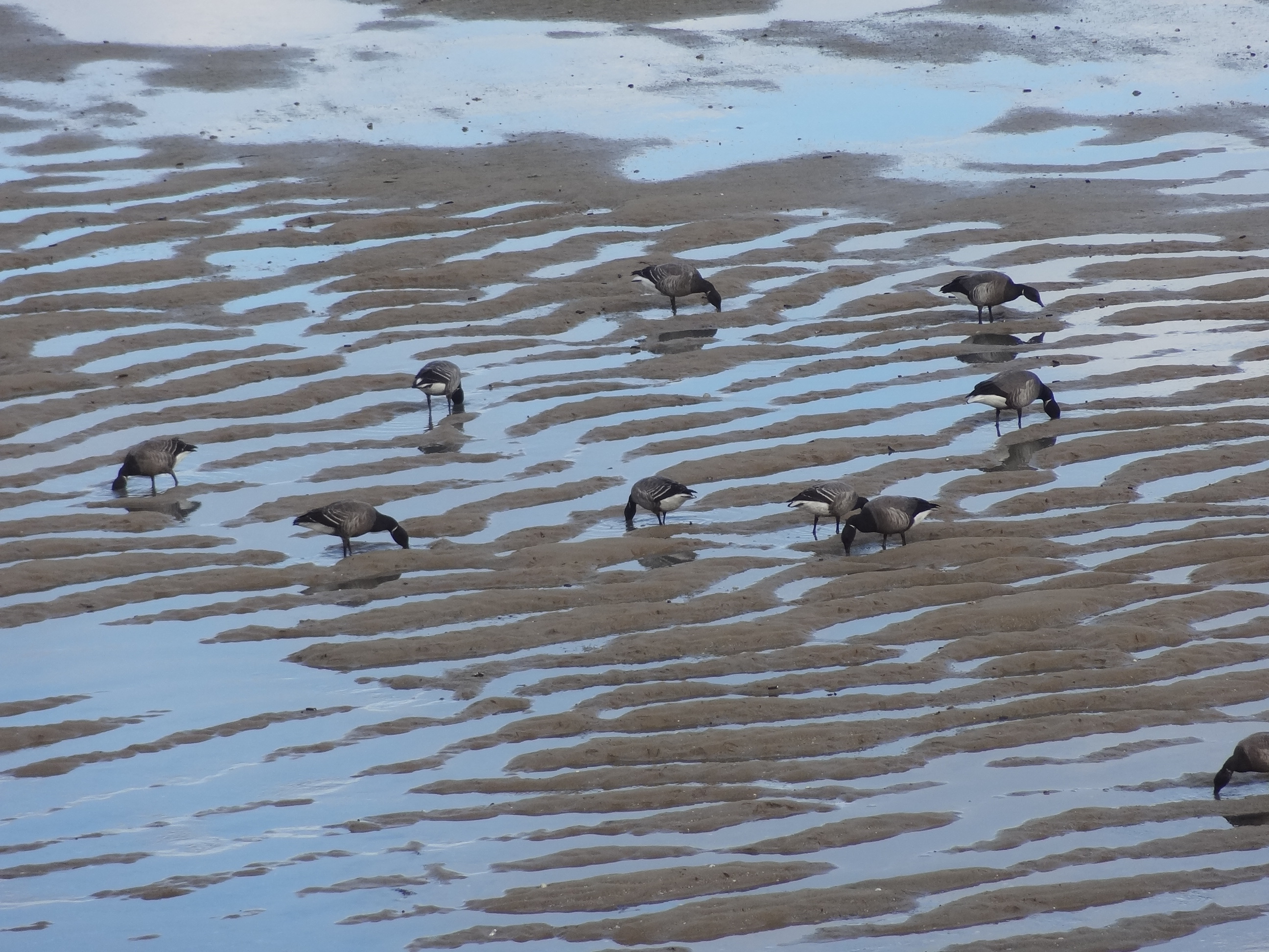 Small geese in Ile d'Oléron, Charente Maritime, France